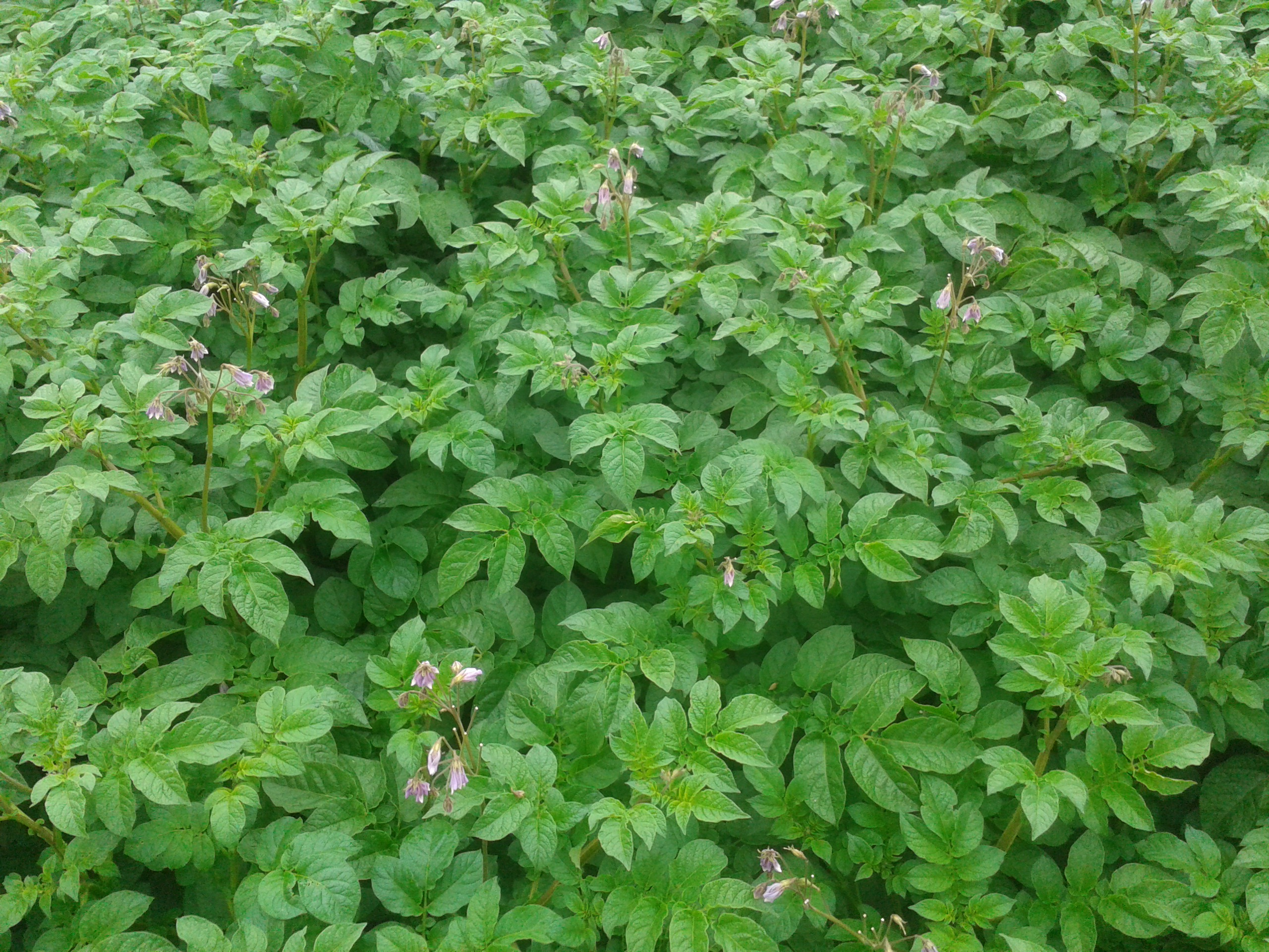 A photograph of the leaves (canopy) of a crop of Maris Piper potatoes.